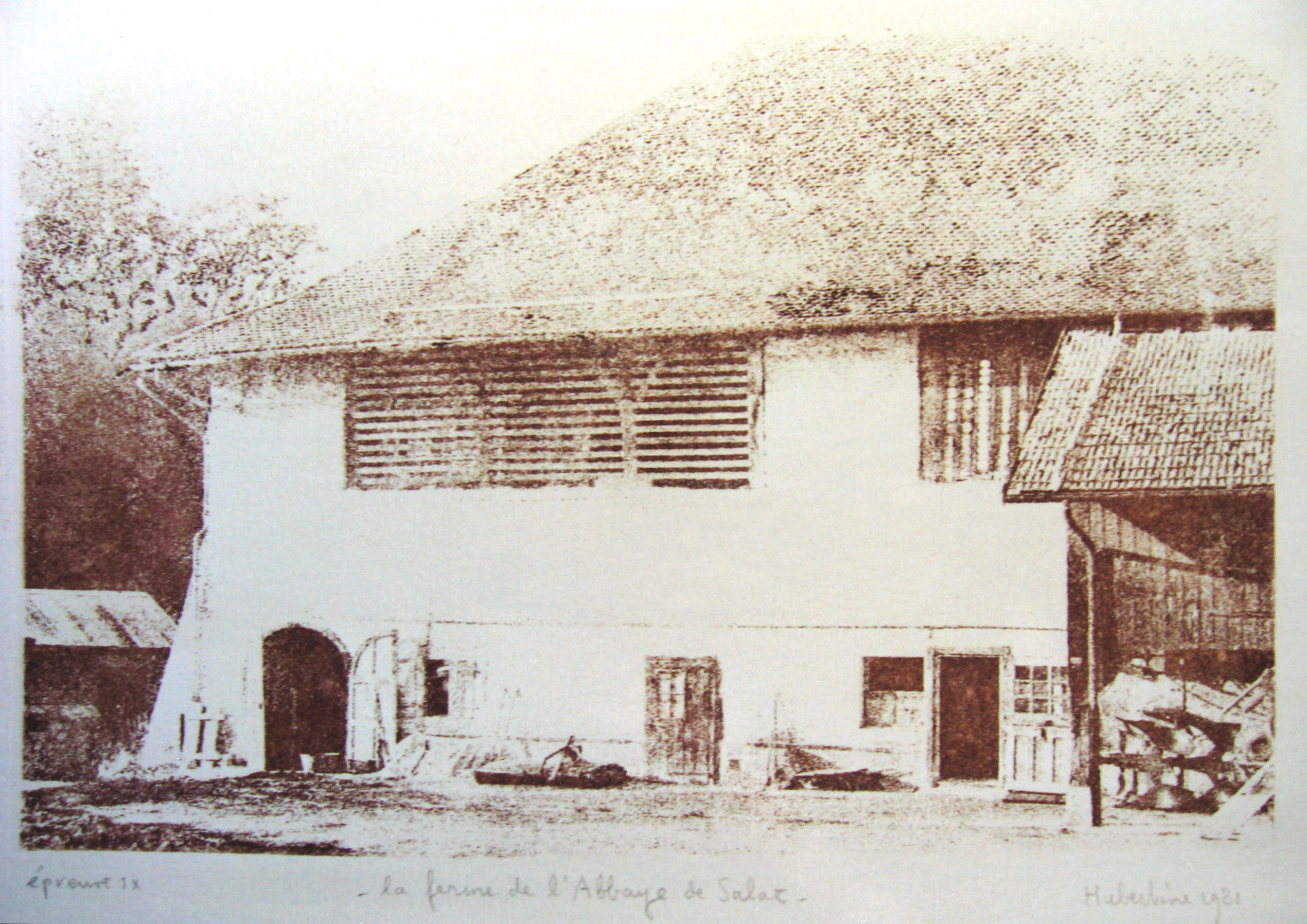 La Sallaz Farm of the Abbey – This ancient farmhouse was burned down and does not exist any more